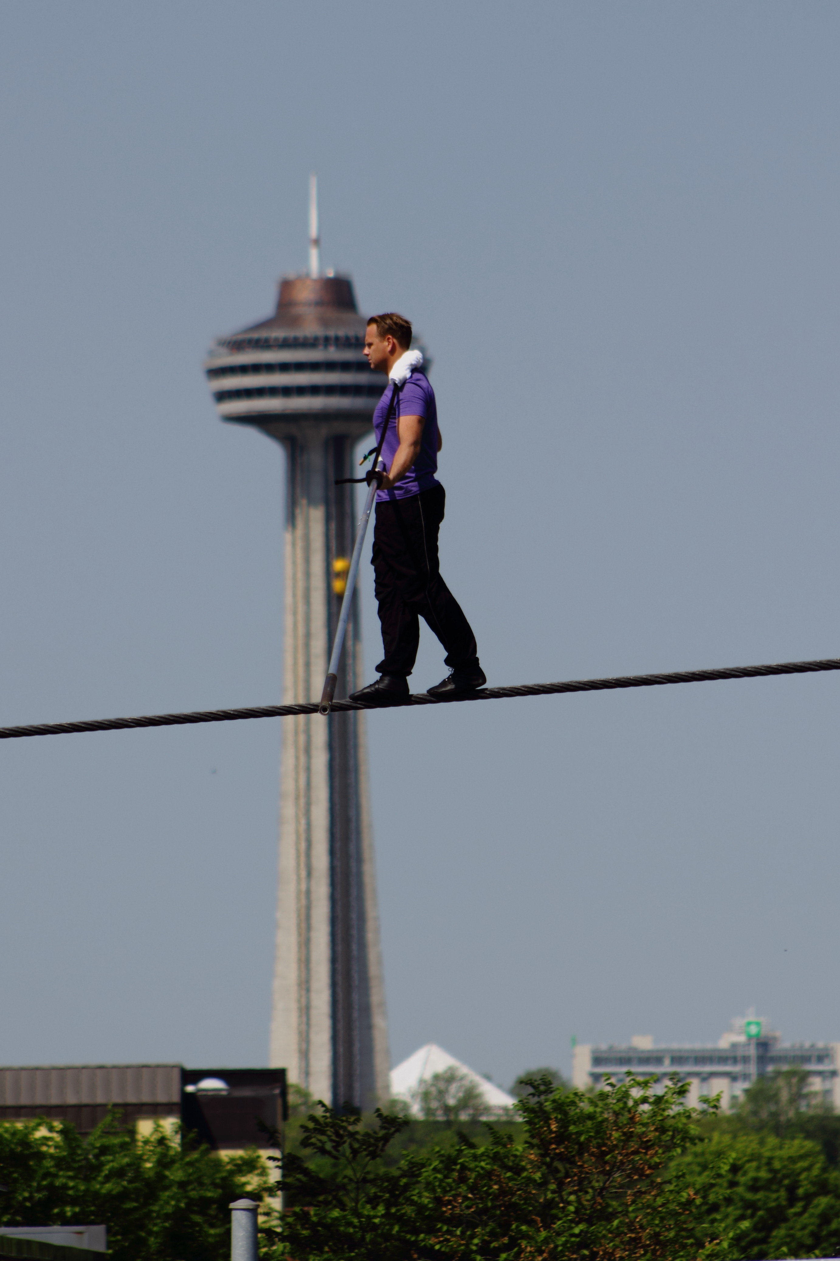 Nik Wallenda, practicing in Niagara Falls, NY for his walk across the Falls in June. This picture was taken with the following settings: 1/640 F4.5 ISO 100. I use a Canon T2i, with a 75-300 telephoto.